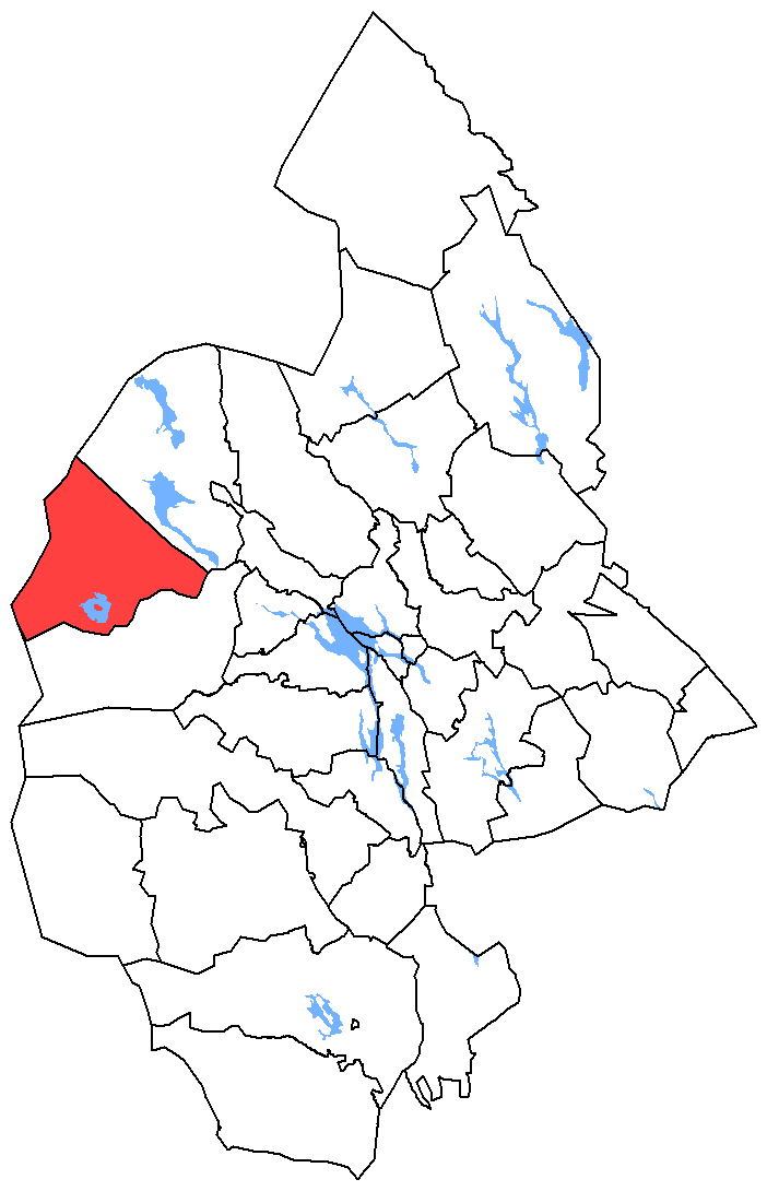 Åre municipality of Jämtland County 1952.